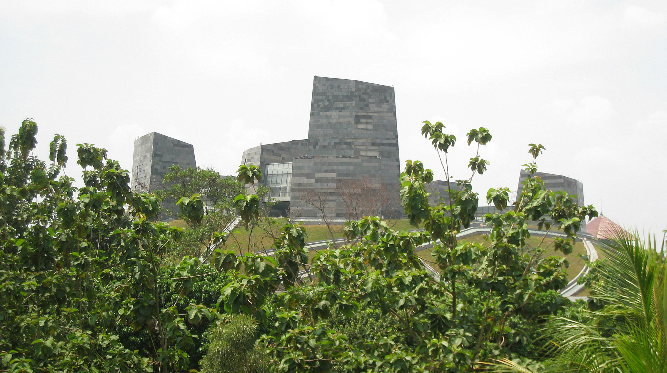 The new Central Library of University of Indonesia amids green environment, Depok, Indonesia.